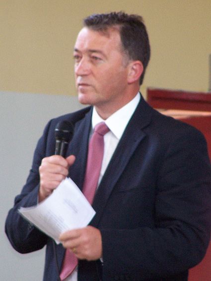 Cameron Dugmore, education minister of the Western Cape, South Africa, speaking to an audience in 2007.